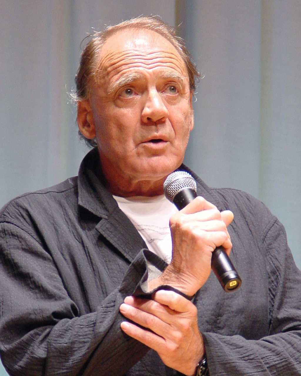 Swiss actor Bruno Ganz at German Film Festival in Tokyo, 11 June 2005.